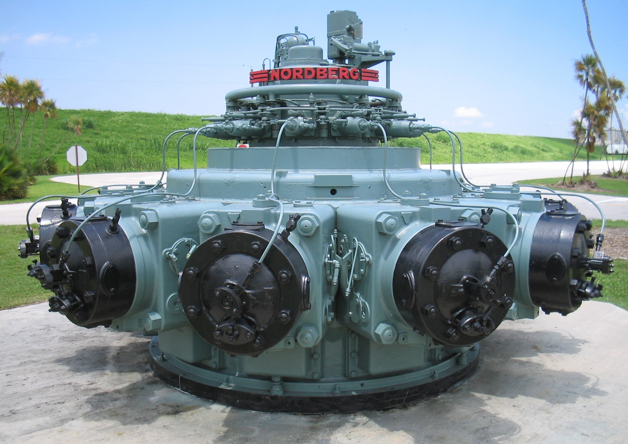 Nordberg Manufacturing Company two-stroke diesel radial engine formerly used as part of a flood control facility for Lake Okeechobee. The engine is now on display in John Stretch Park.